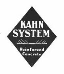 Kahn System brand logo